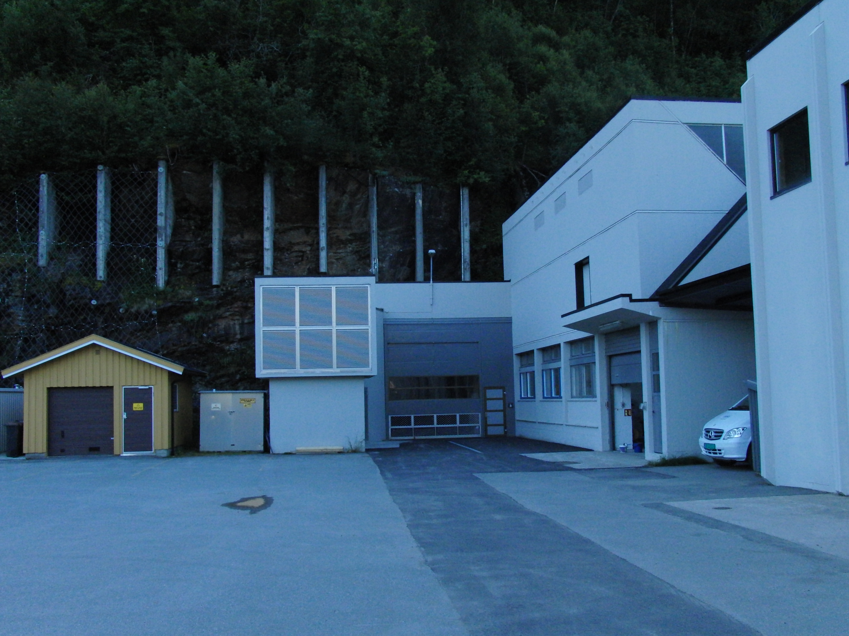 Sundsfjord Hydroelectric Power StationNorsk bokmål: Sundsfjord kraftverk